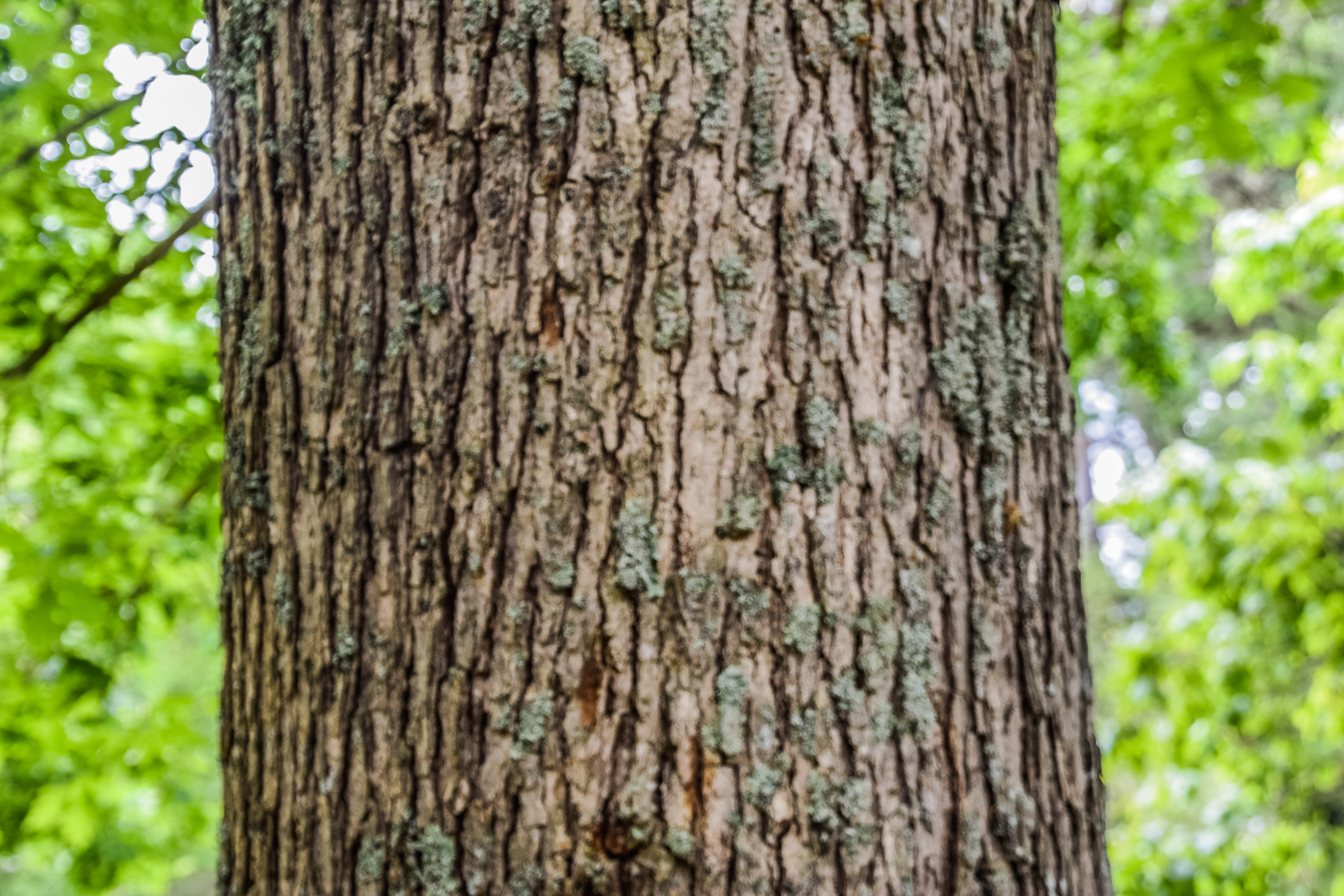 Bark of Quercus alba in Hackfalls Arboretum, Gisborne Region, New Zealand